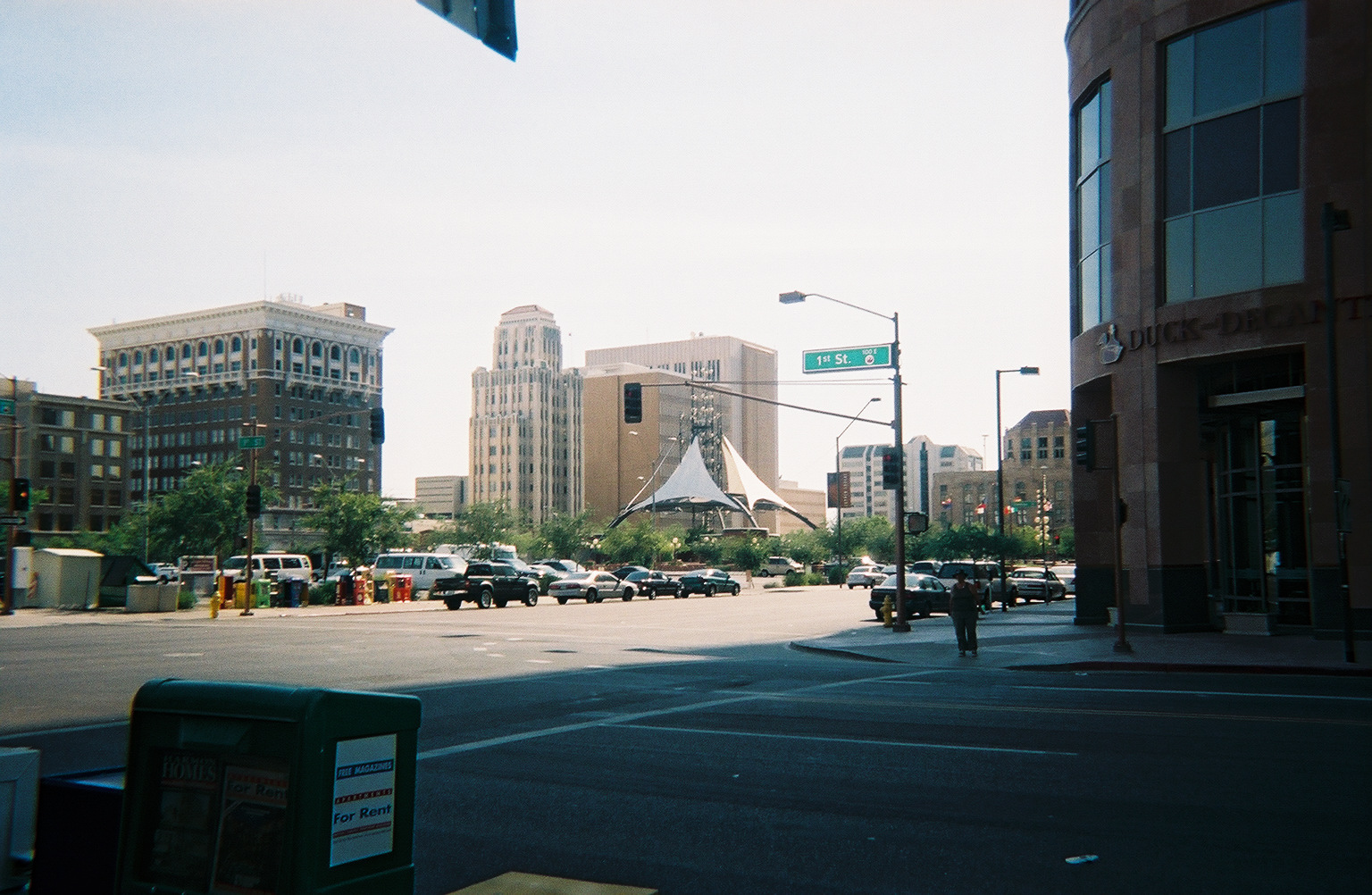 View from downtown Phoenix in the afternoon, summer 2003